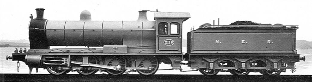 North Eastern Eight-coupled Goods NER Class T